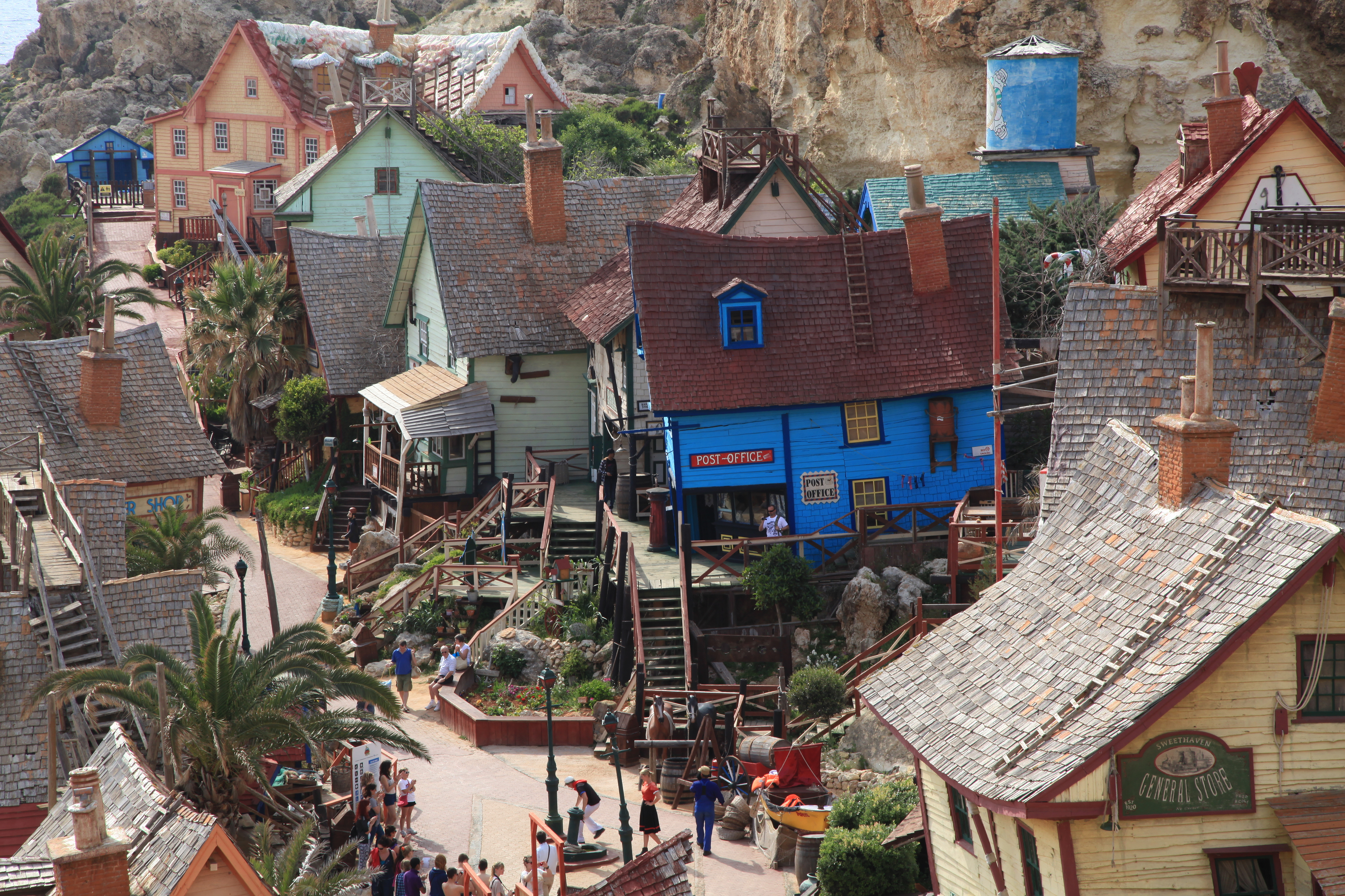 Popeye Village at Triq tal-Prajjet in Mellieħa, Malta